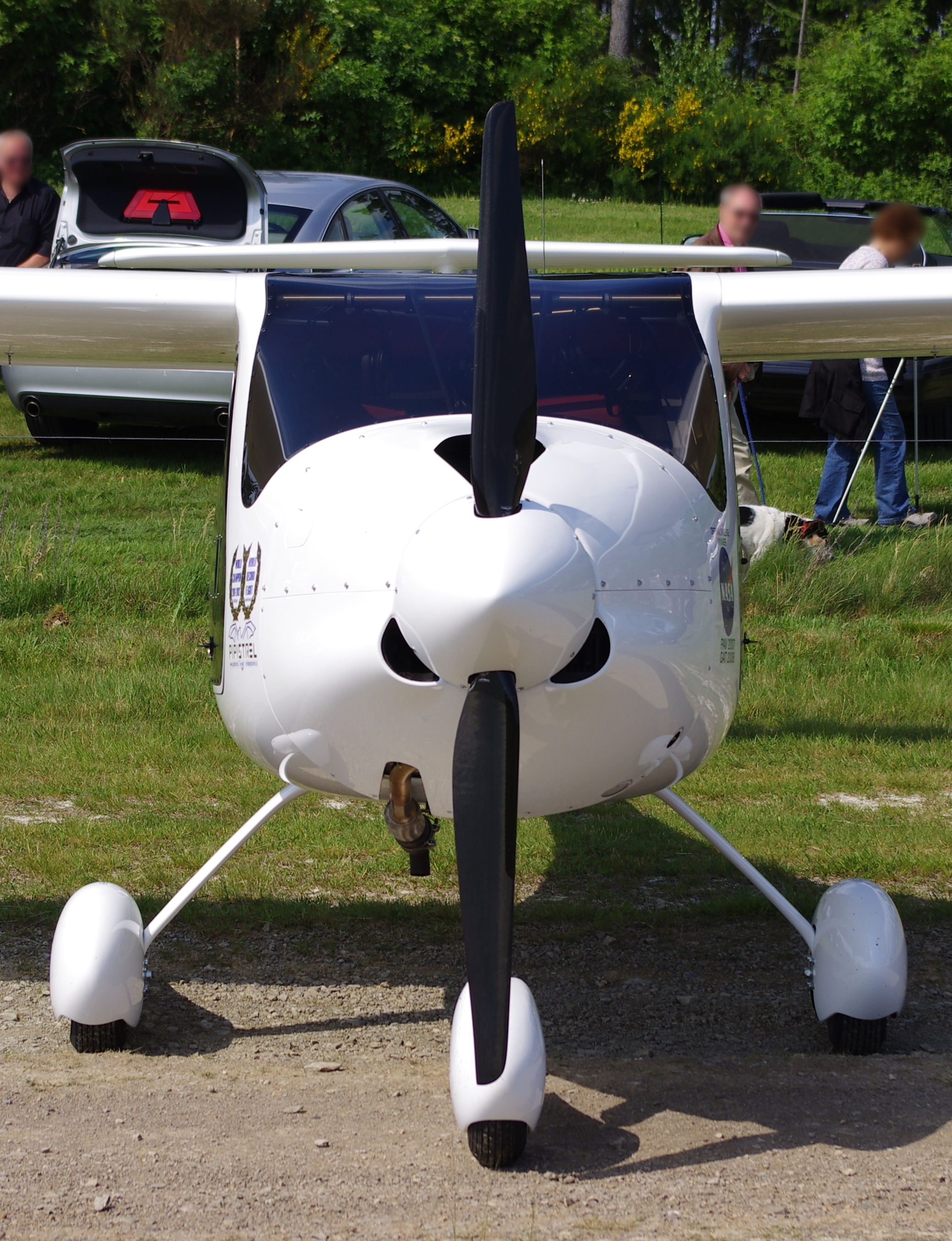 A Pipistrel Virus SW at Schmallenberg-Rennefeld (EDKR) during the Bergfliegen 2012